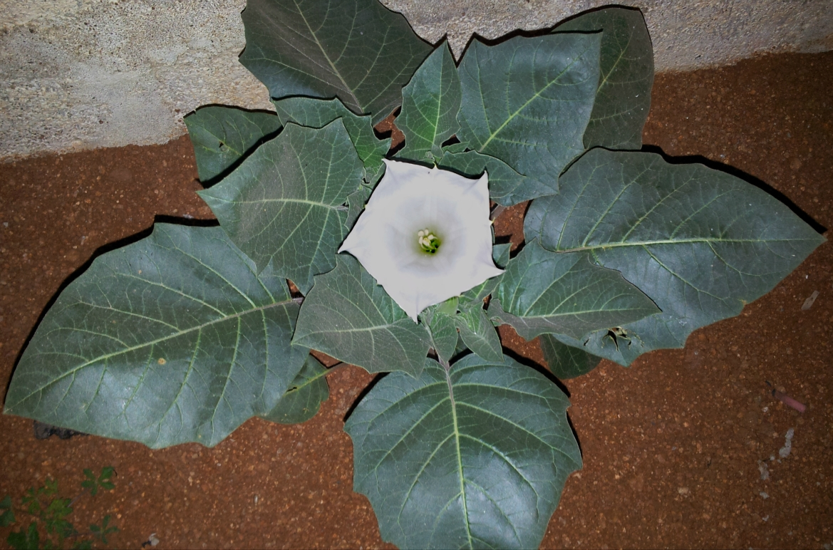 Datura Flower on the plant (Top View) near Hyderabad, Andhra Pradesh, India